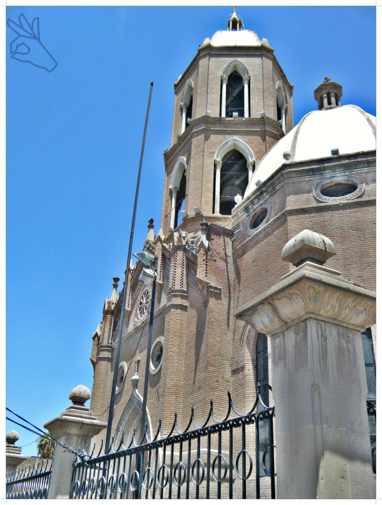 parroquia 1901 gp